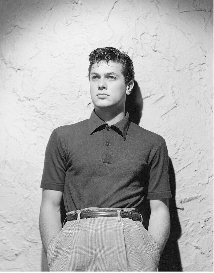 Tony Curtis, circa 1952